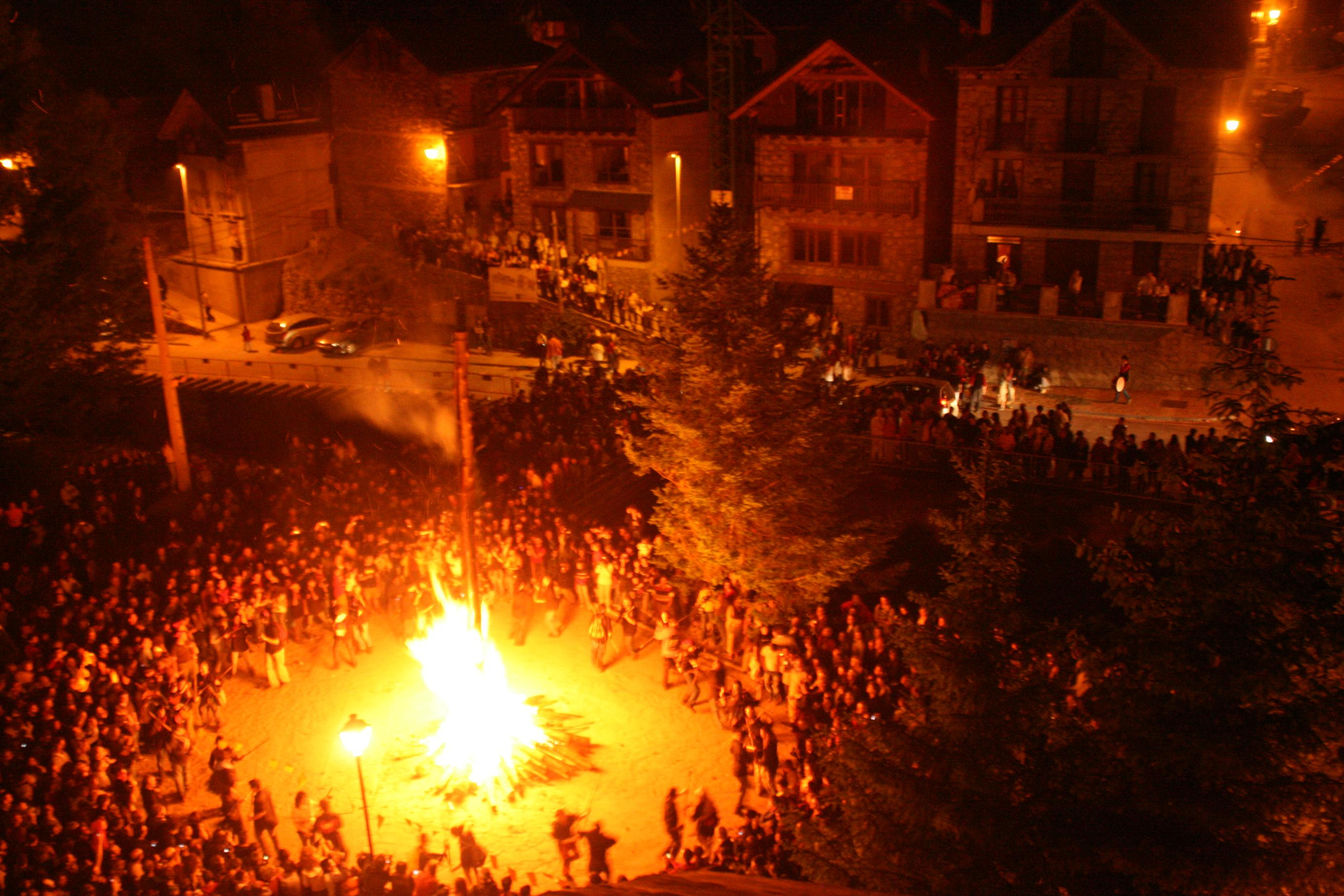 Les Falles d'Isil - Sant Joan 2008